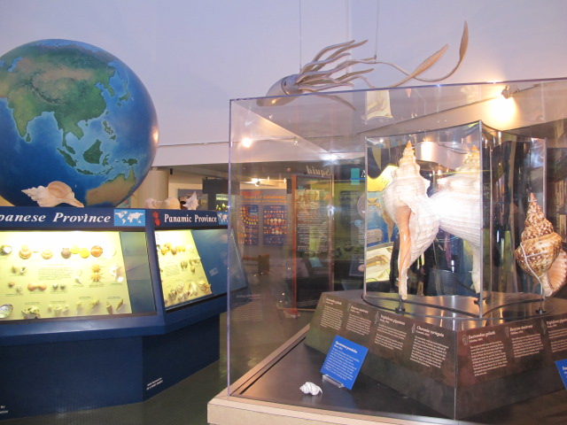 Museum exhibits about worldwide shells, and one showing some World Record Size shells.